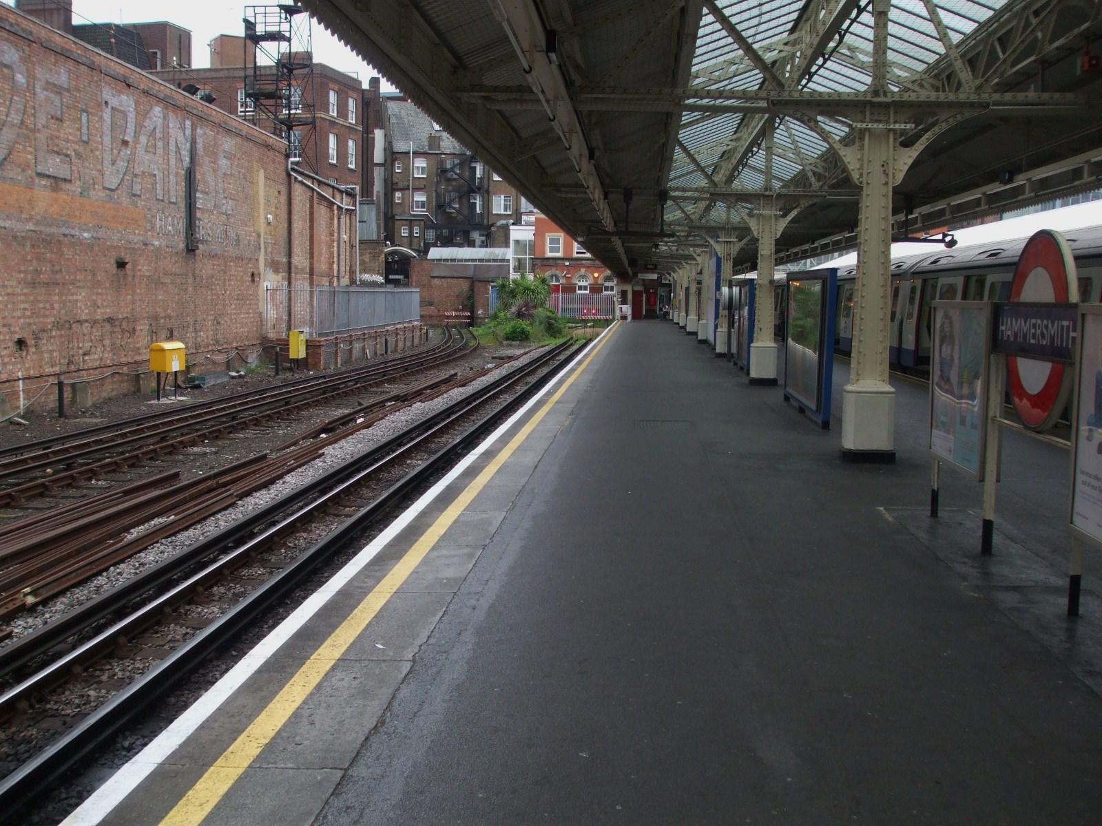 Hammersmith station (Hammersmith & City line) platform 3 looking south to buffers.